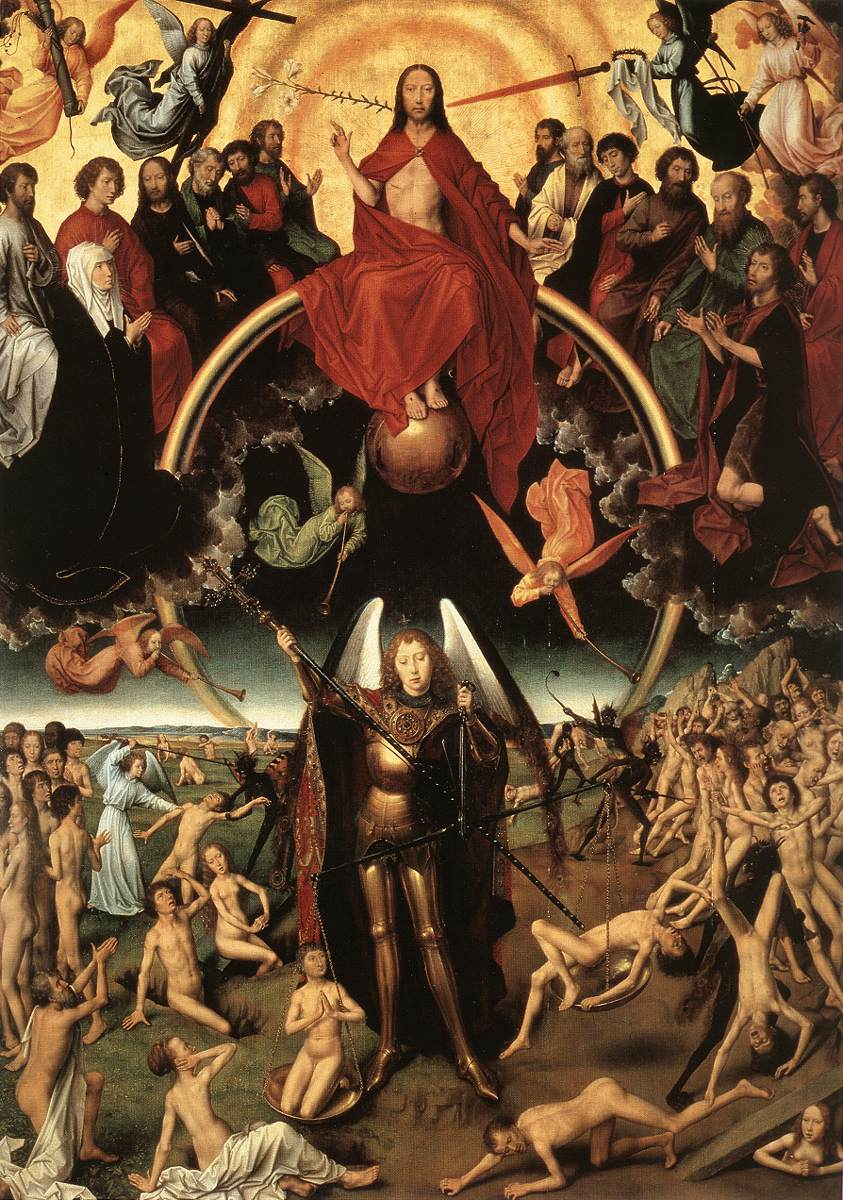 attributed to Hans Memling (c.1440-1494) "Last Judgement Triptych" (central panel) in Muzeum Narodowe, Gdansk, Poland.